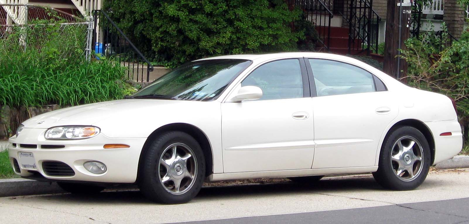 2001-2003 Oldsmobile Aurora photographed in Washington, D.C., USA.